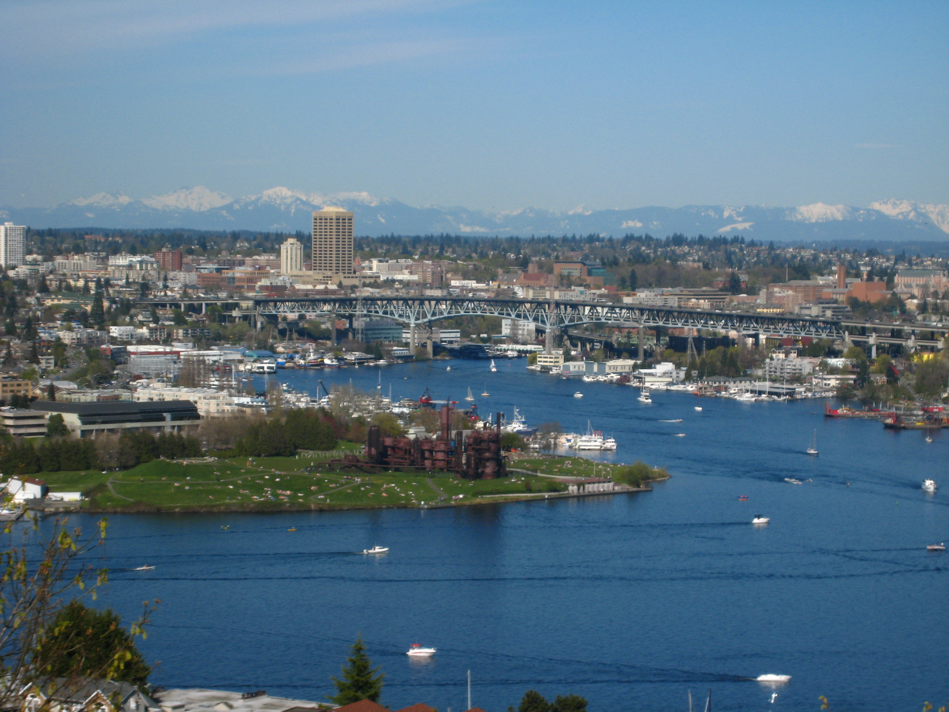 Views of Gas Works Park and Lake Union facing towards the North East from Queen Anne, Seattle WA. The Lake Washington Ship Canal Bridge is in the background with a backdrop of the University of Washington and the Cascade Mountains.